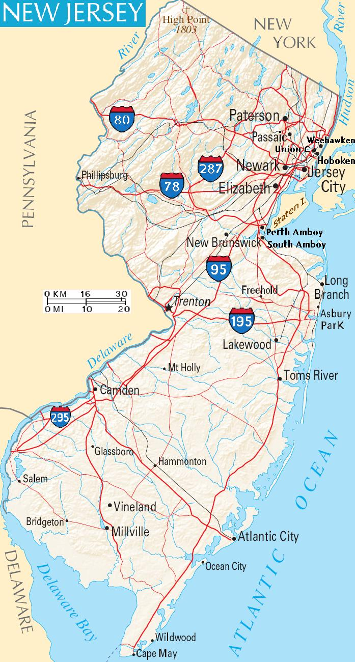 Scalable map of the U.S. state of New Jersey (full state) showing terrain features: hills, lakes, rivers, roads and major towns, in quick photographic format (JPEG) to highlight terrain features. The Atlantic Ocean, Delaware River, and nearby states are labeled; the Interstate icons are enlarged 60%; and major cities are bolded 20%-40% for readability when scaled to 310px display width. The distance scale is shown in miles/kilometers, and labels appear 4x times larger than original in the US National Atlas, at similar display width. Format: Quick JPEG format for photographic quality, extracted/reduced from National-Atlas file of PNG format, 130x times more massive. Names have been enlarged for readability when map is resized smaller. Map is huge and could be reduced more: the original PNG file might crash browsers with many open windows.